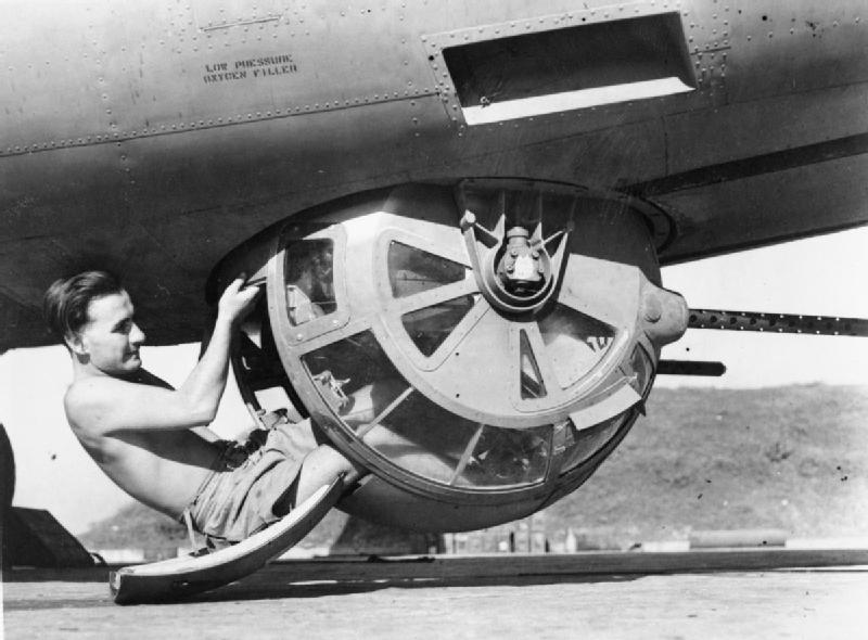 Air Ministry Second World War Official Collection